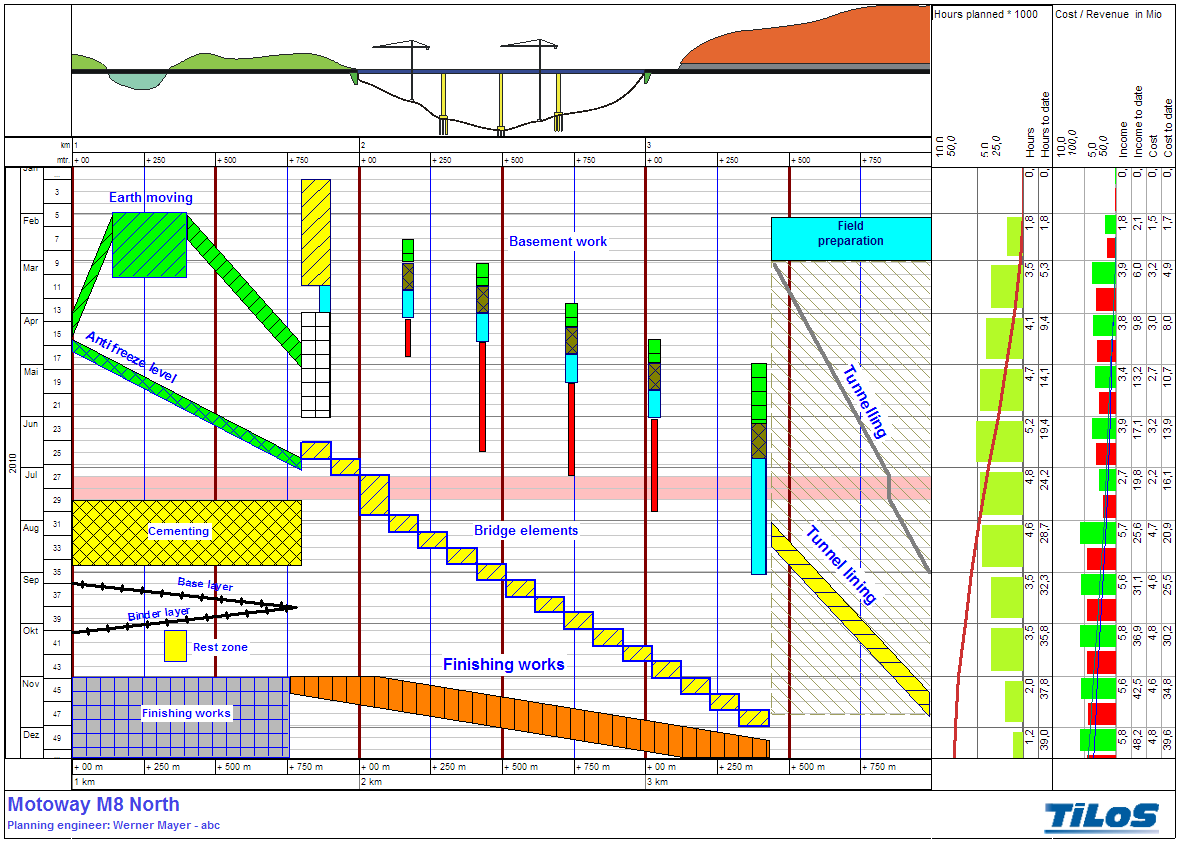 Example of a Time Distance Diagram created with the software TILOS